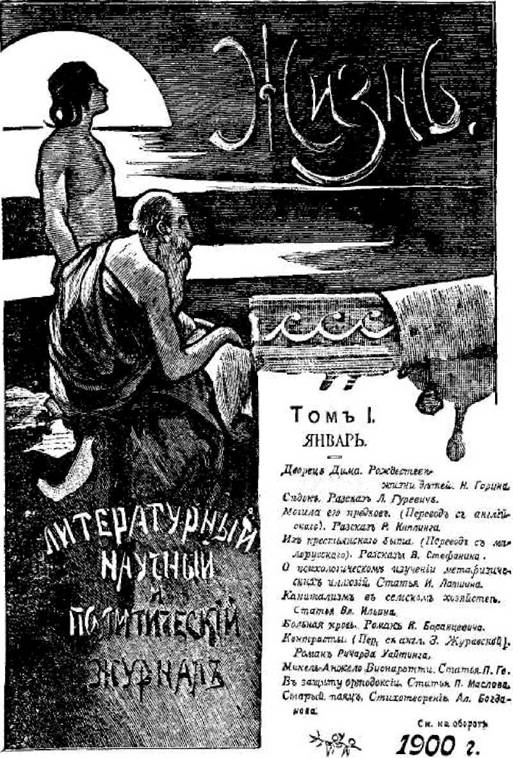 Cover of magazine Zhizn (Life) 1900 year